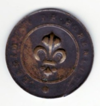 Hohenlohe